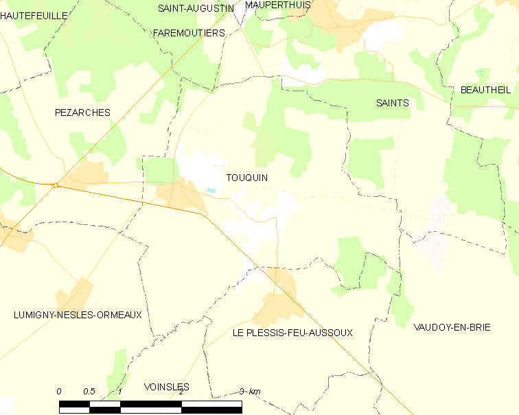 Map of French municipality Touquin